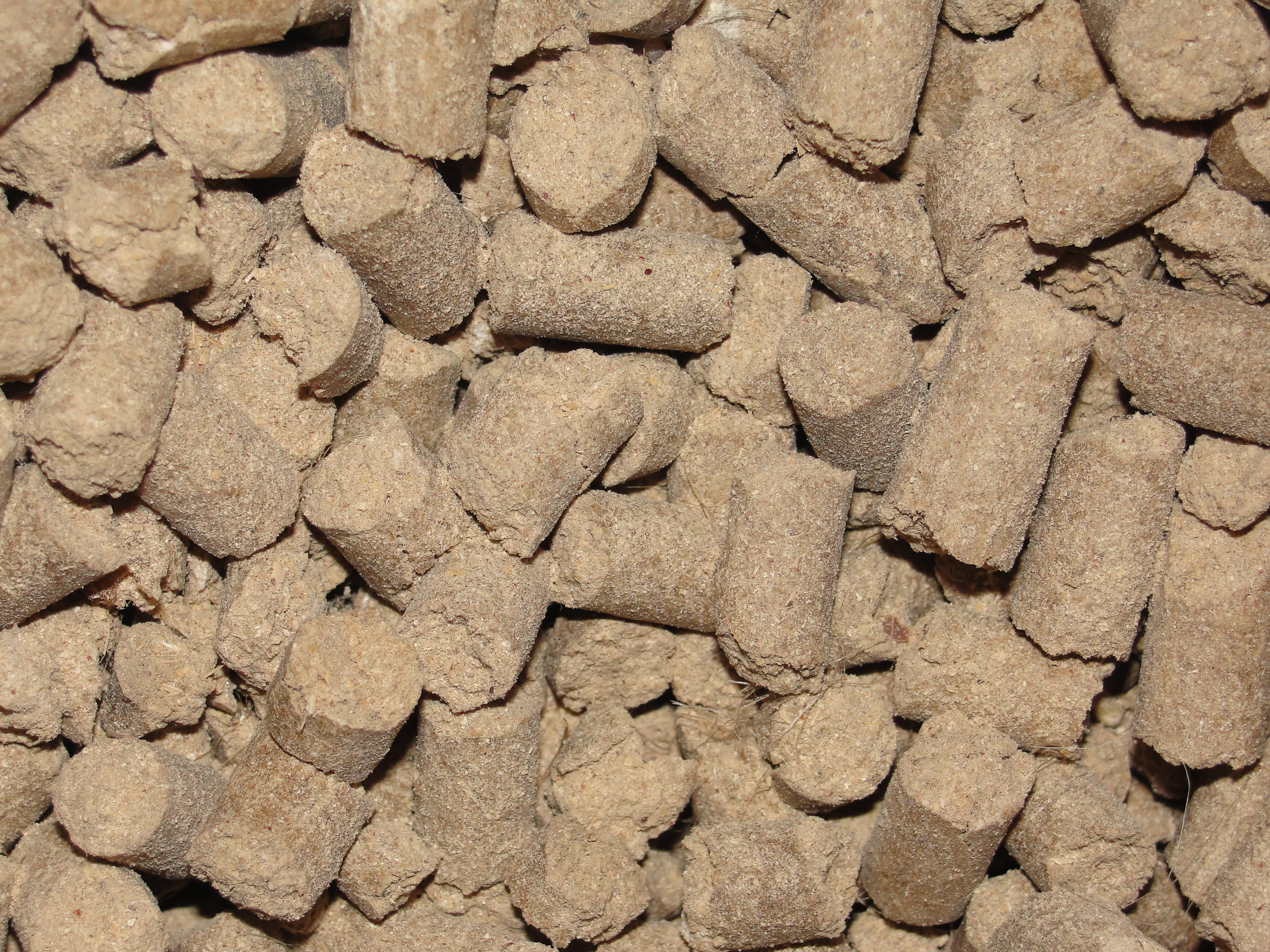 A view of cattle feed